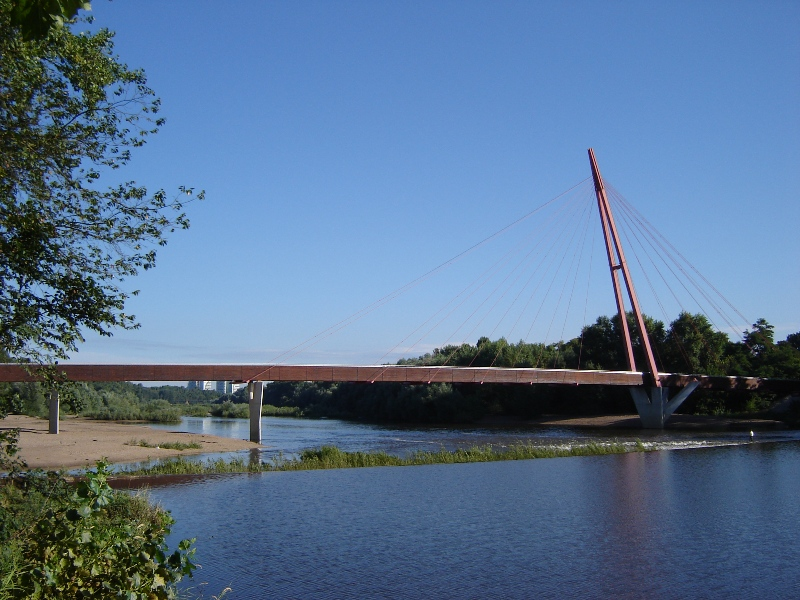 Bridge in Magdeburg-Cracau (Germany)